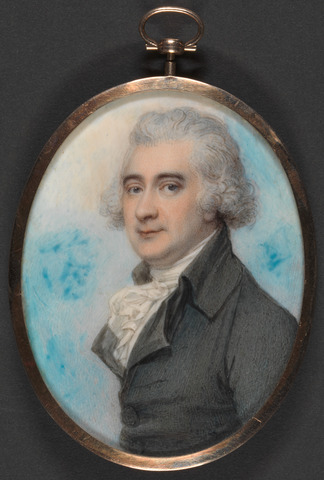 Medium Watercolor and gouache on ivory Dimensions Image: 3 1/8 x 2 3/8 inches (7.9 x 6 cm) Frame: 3 5/8 x 2 5/8 x 1/8 inches (9.2 x 6.7 x 0.3 cm) Inscription(s)/ Marks/ Lettering Inscribed in artist's hand in pen and brown ink on a paper backing: "James | Earl of Hopetoun | R dus. Cosway R.A. | Primarius Pictor | Serenissimi Walliae | Principis | Pinxit | 1789" Credit Line Yale Center for British Art, Paul Mellon Collection Accession Number B1974.2.19 Collection Prints and Drawings Curatorial Comment Cosway used his signature method of sticking closely to the tone of the ivory support in this portrait of the Earl of Hopetoun (1741-1816). He limited his palette to blue, gray, white, and black, with pink highlights on the cheeks and lips, and the colors were made as transparent as possible before application. They seem to float on the ivory background, which is visible in sections of the countess's gown that are untouched by watercolor or gouache. Although the face is rendered with delicate strokes of paint, Cosway freely applied his signature blue in the background. The Earl and Countess of Hopetoun (1750–1793 were acquainted with the Cosways at least three years before these portrait miniatures were painted. In 1786 their daughter Eliza recorded having seen an “excessively handsome” miniature of the Prince of Wales at the Cosways’ home and studio (“Troubled Life”, 2000, p. 7). What prompted the Hopes to sit for Cosway in 1789, particularly in the somewhat unusual format of a pair of pendant miniature portraits, is not known. -- Cassandra Albinson, 2007-01